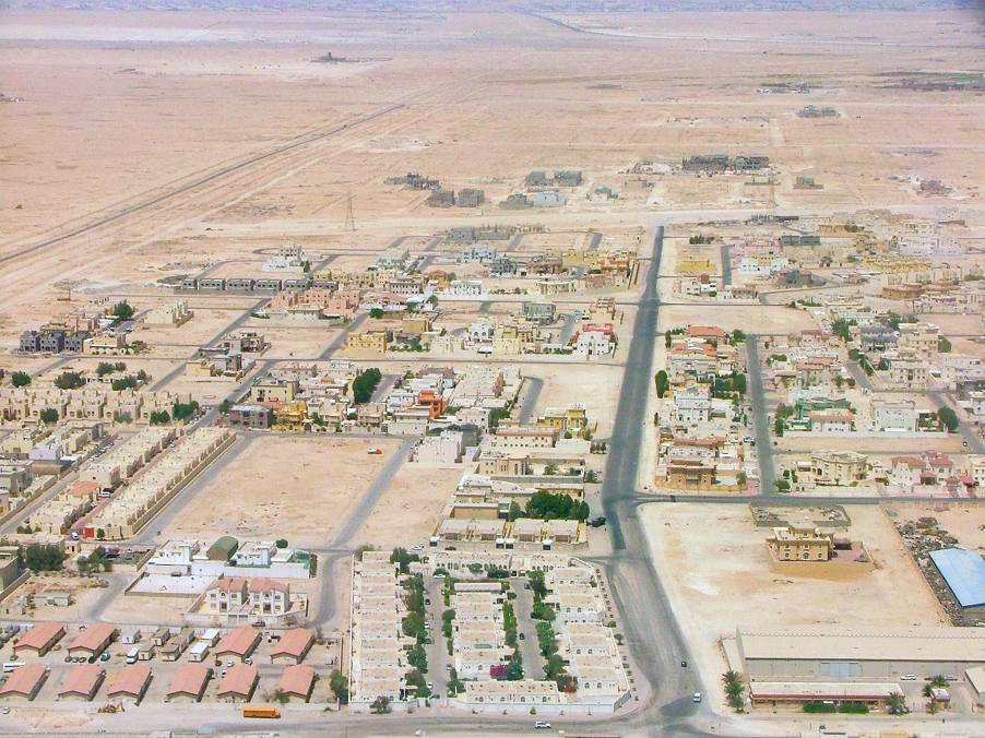 Doha - suburbians.